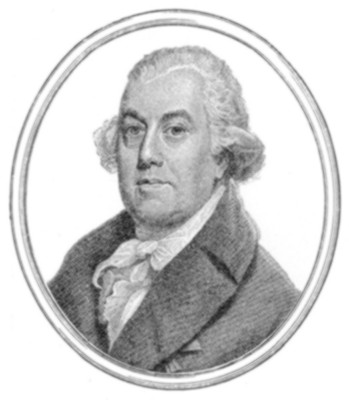 John Ker, 3rd Duke of Roxburghe (1740-1804).